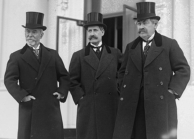 French diplomat Philippe Berthelot (1866-1934) in Washington with Jean Jules Jusserand (left) and Aristide Briand (right).